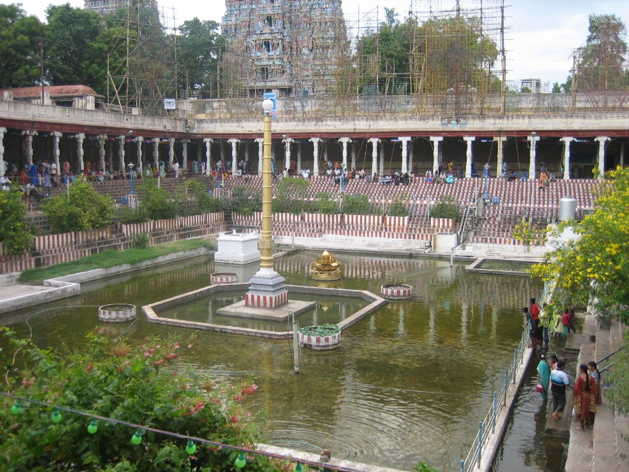 Temple tank of Madurai Meenakshi temple